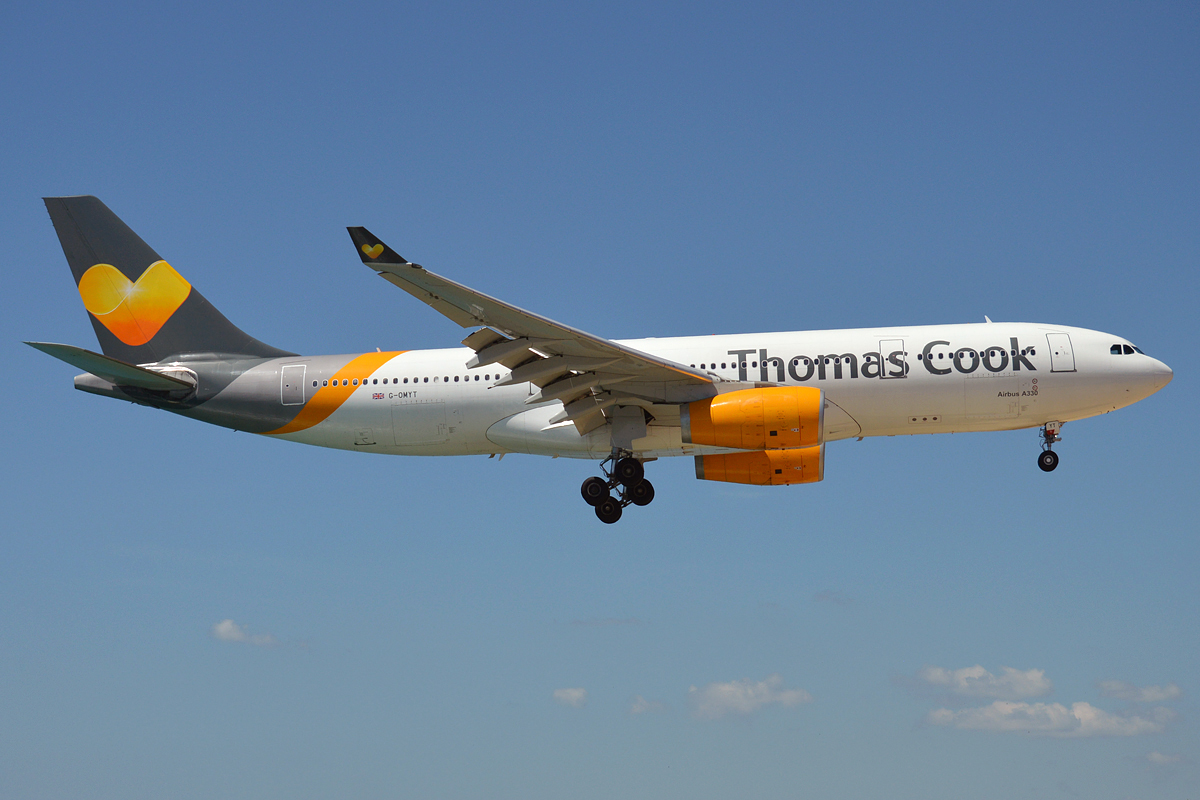 Thomas Cook Airlines, G-OMYT, Airbus A330-243